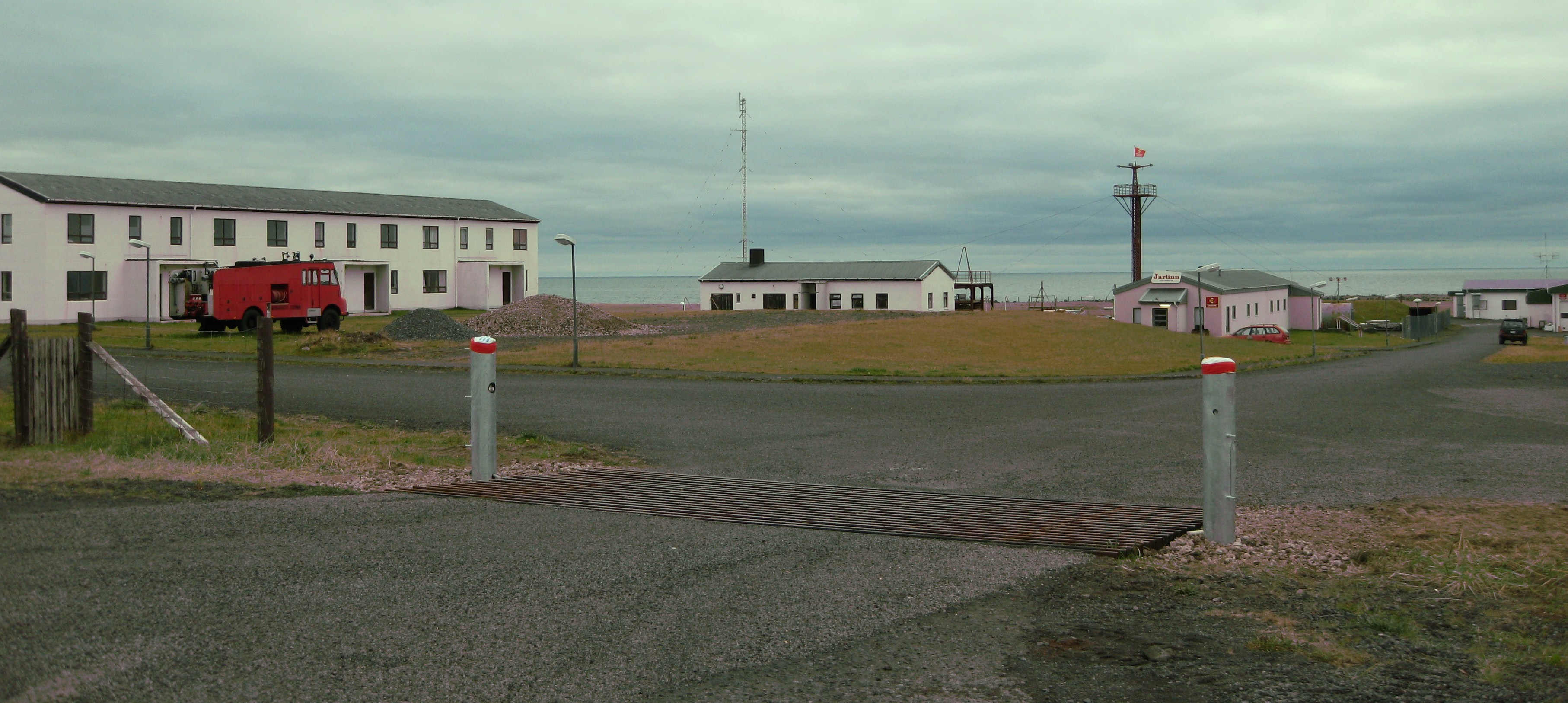 Gufuskálar in Hellissandur inSnæfellsnes , Iceland. Photo by Salvor Gissurardottir in August 2008